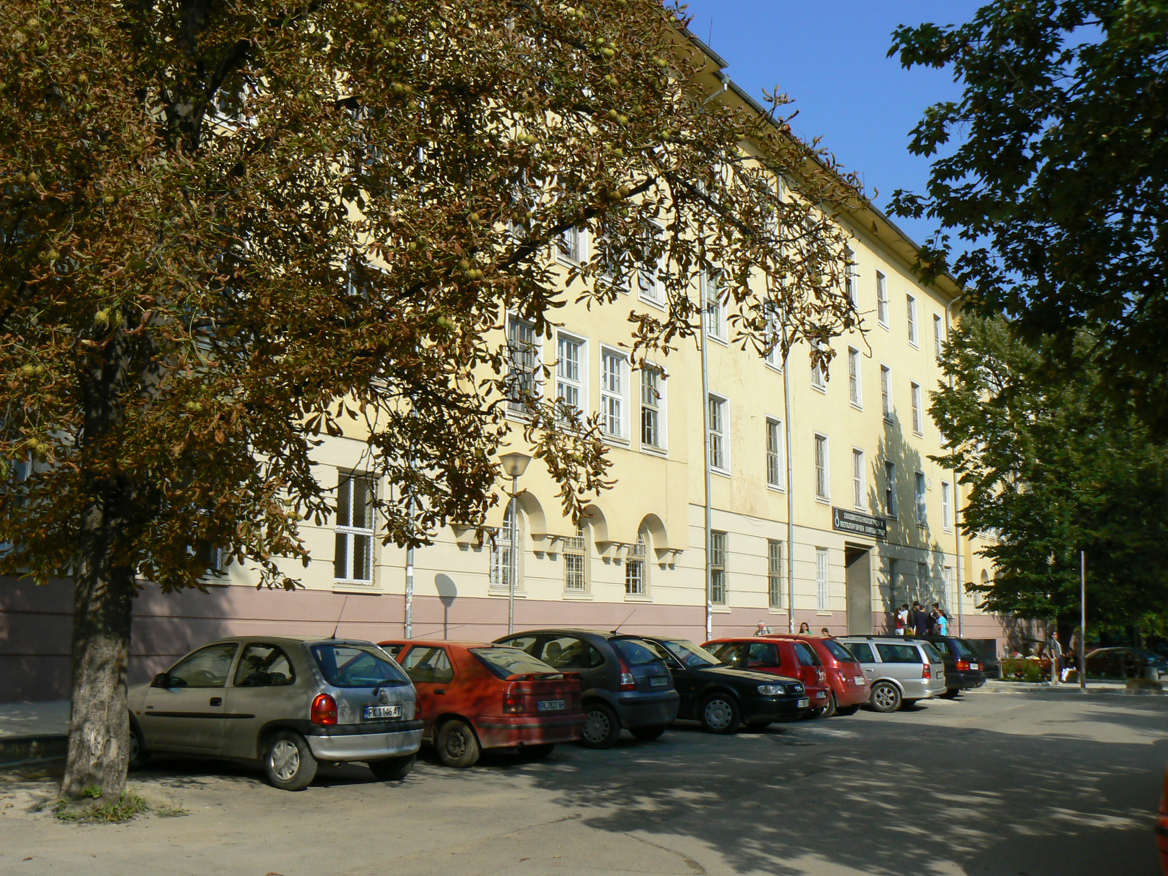 University of Chemical Technology and Metallurgy, Sofia